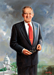 Robert A. Roe, US Representative from New Jersey